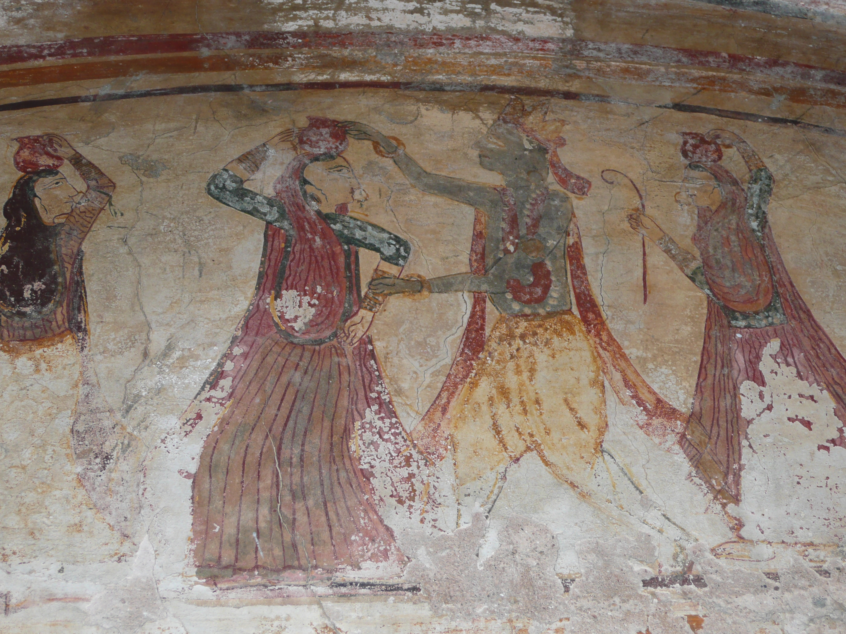 Ancient Shiva Temple roof paintings, Lord Krishna with Gopi's in motion in Payal, Ludhiana, Punjab, India)